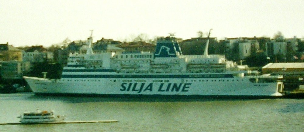 M/S Wasa Queen in Helsinki in the late 1990s. This is a digital photograph of the original (paper) photo, hence the poor quality. Both the original photograph as well as the digital reproduction taken by Kalle Id.